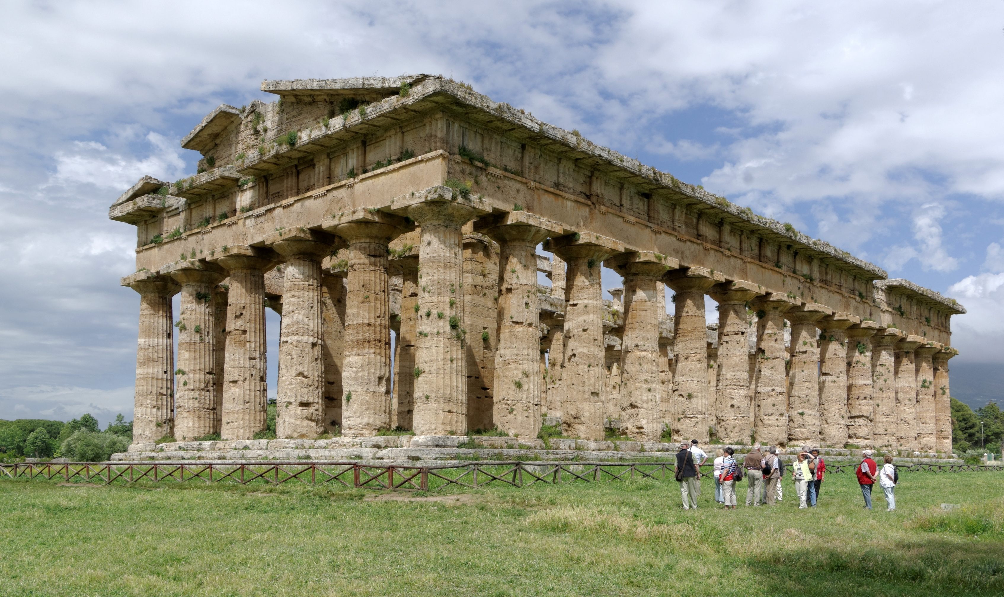 Italy, Paestum, Temple of Hera II (sometimes called the Temple of Neptune)